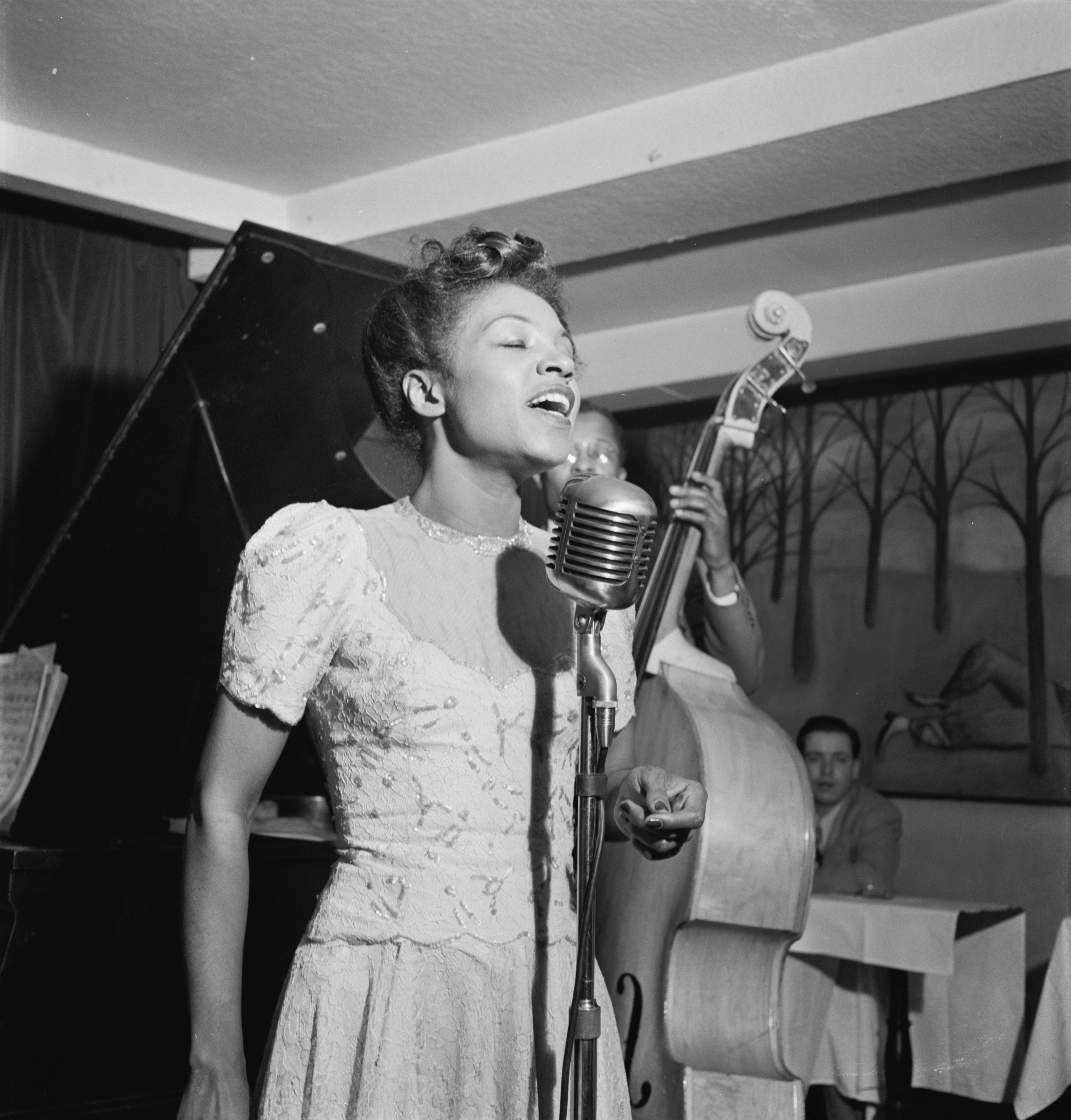 Maxine Sullivan, Village Vanguard, NYC, ca March 1947. Photography by William P. Gottlieb. (Photo cropped by Gazebo to remove the border.)